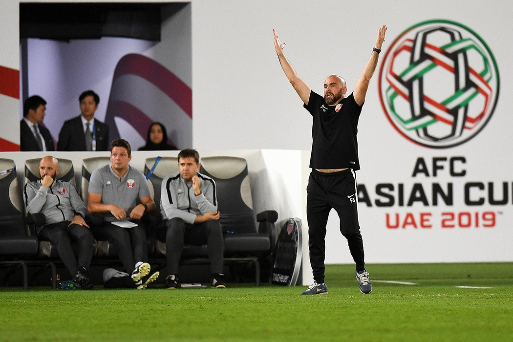 South Korea-Qatar, 2019 AFC Asian Cup Quarter-final. Qatar's coaching staff, left to right: Alberto Mendez-Villanueva, Julius Büscher, Sergio Alegre and head coach Félix Sánchez.